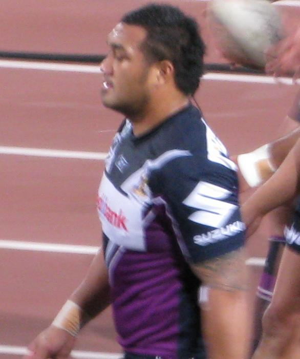 Jeff Lima